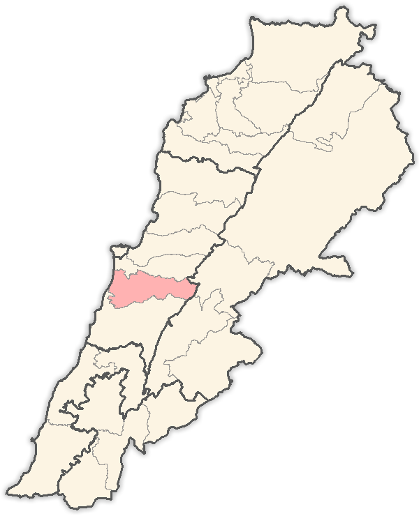 Map of districts in Lebanon, highlighting the Aley District